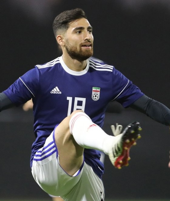 Alireza Jahanbakhsh at Iran training